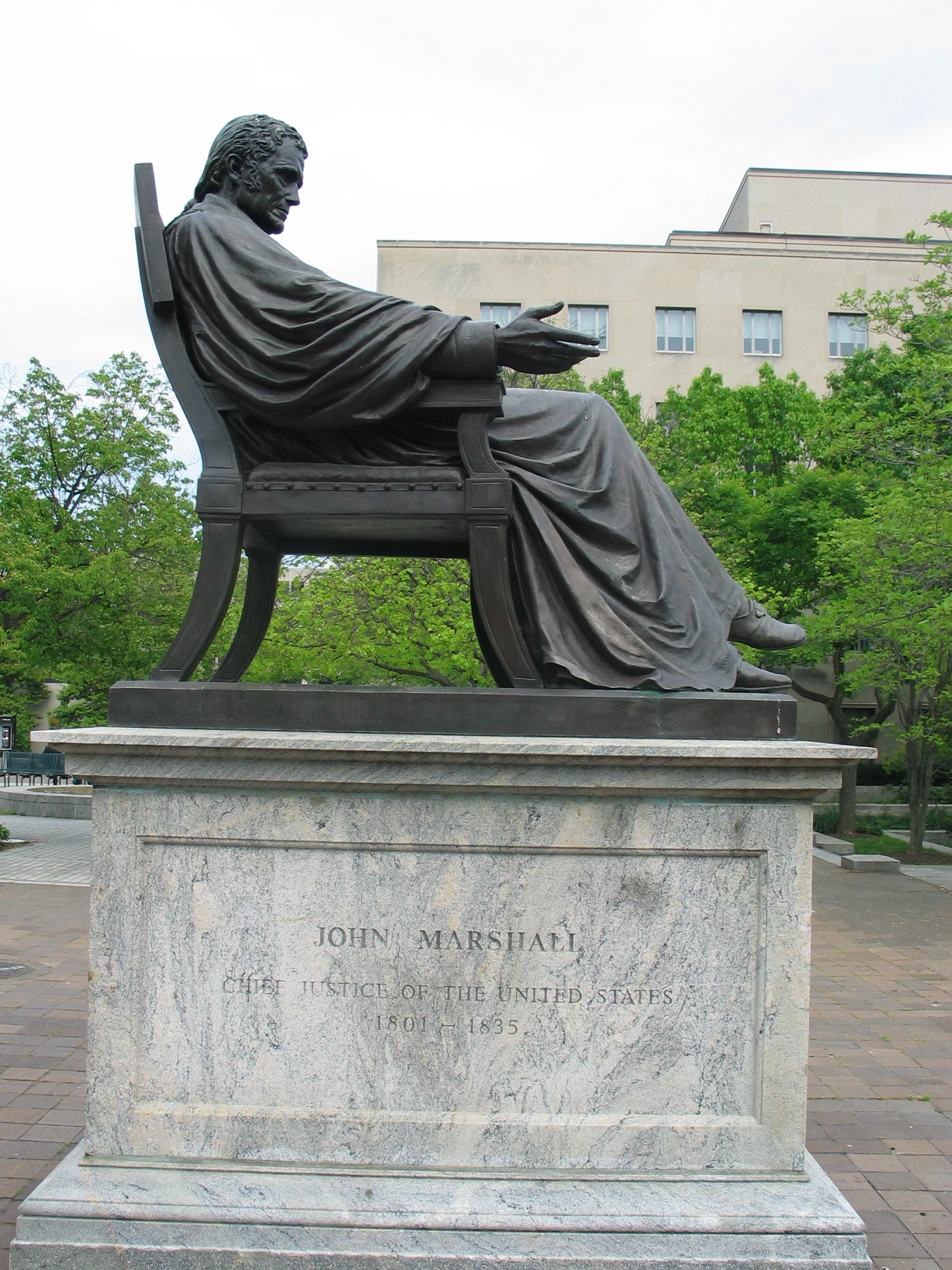 Sculpture of John Marshall by William Wetmore Story Taken by User:Isomorphic during the Washington D.C. outing on May 7, 2005. Licensed under the GFDL and any Creative Commons license you like.